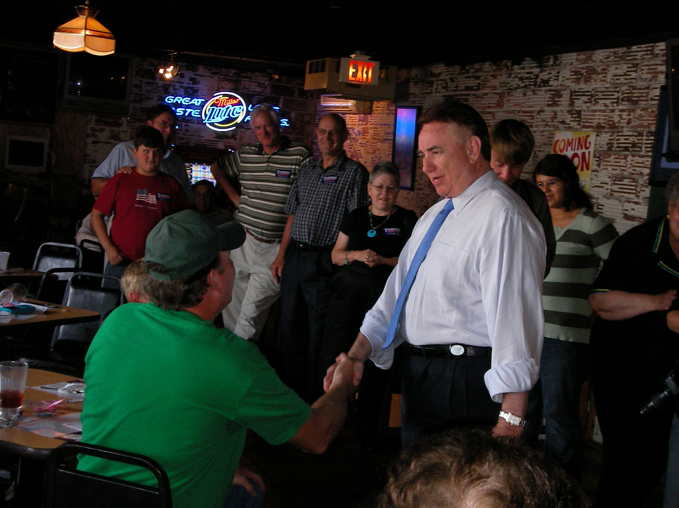 Iowa's premier political news site: Former Wisconsin Gov. Tommy Thompson, a GOP presidential hopeful, campaigns July 9 at Signatures Bar and Grill in Indianola.